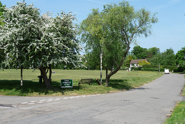 Village Green, Woodcote: A rustic view, but still within the London Borough of Croydon. Woodcote is a posh suburb laid out by William Webb in 1901-20. Very large houses, though not particularly architecturally distinguished. Webb's idea was that gardens be designed first as "...the house is but the complement of the garden..."